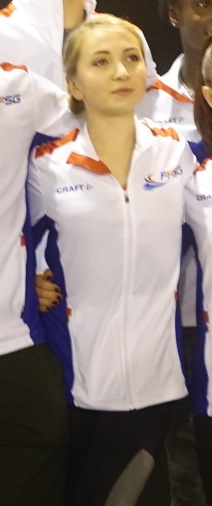 2018 Internationaux de France - French team press conference